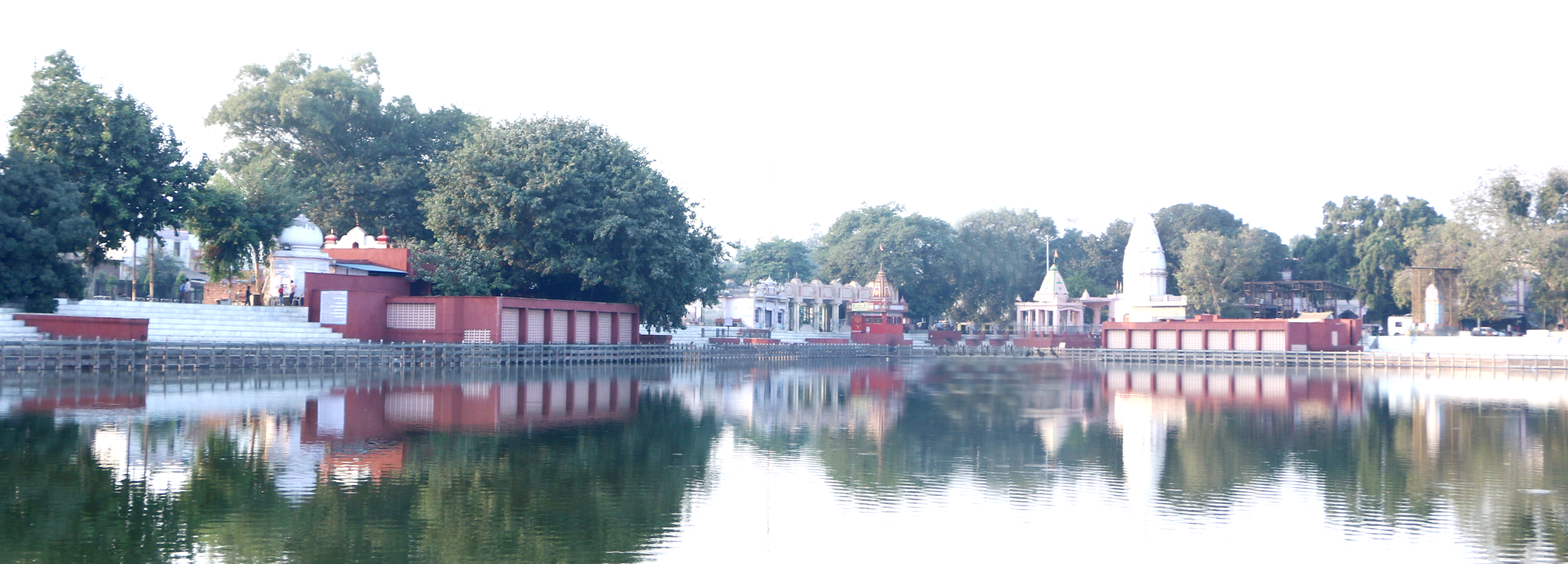 Sannihit Sarovar Large View